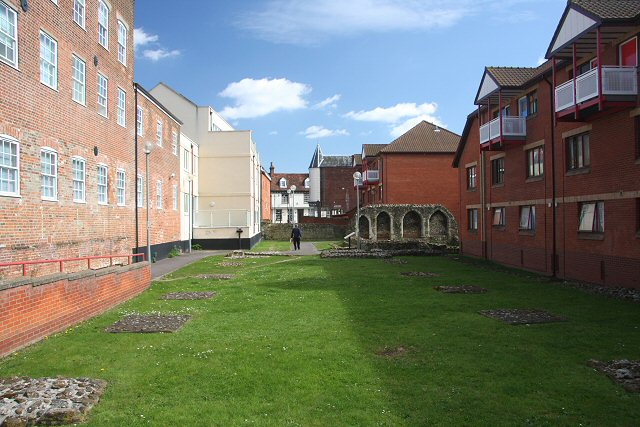 Remains of St Mary, Blackfriars, Ipswich These are the only substantial remains of a medieval community's foundation in Ipswich. The church of the Dominicans, the Blackfriars, whose Friary of the Blessed Virgin lay to the south of Tacket Street, was excavated by archaeologists in the 1980s. New office blocks now surround the area, which has been preserved as an open green space and is a popular lunch spot for office workers in the summer.